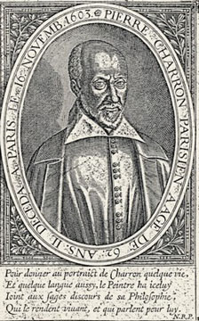 Pierre Charron, French 16th-century philosopher